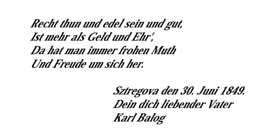 Balog de Manko Bück Zitat